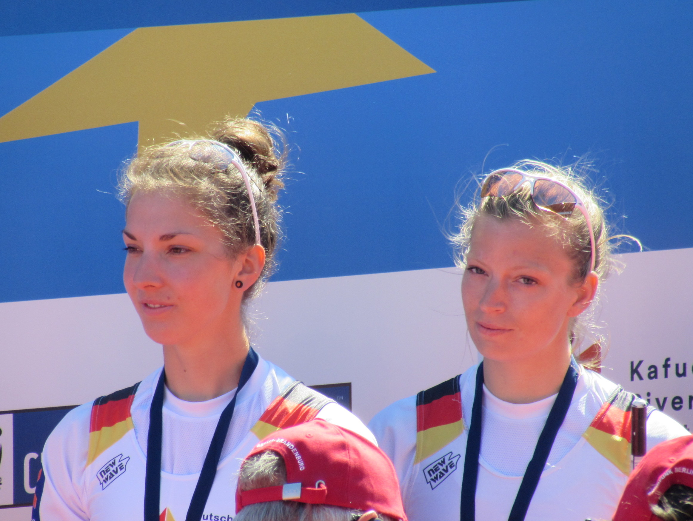 Kerstin Hartmann (right) and Kathrin Marchand (left) at the 2016 European Rowing Championships in Brandenburg an der Havel, Germany